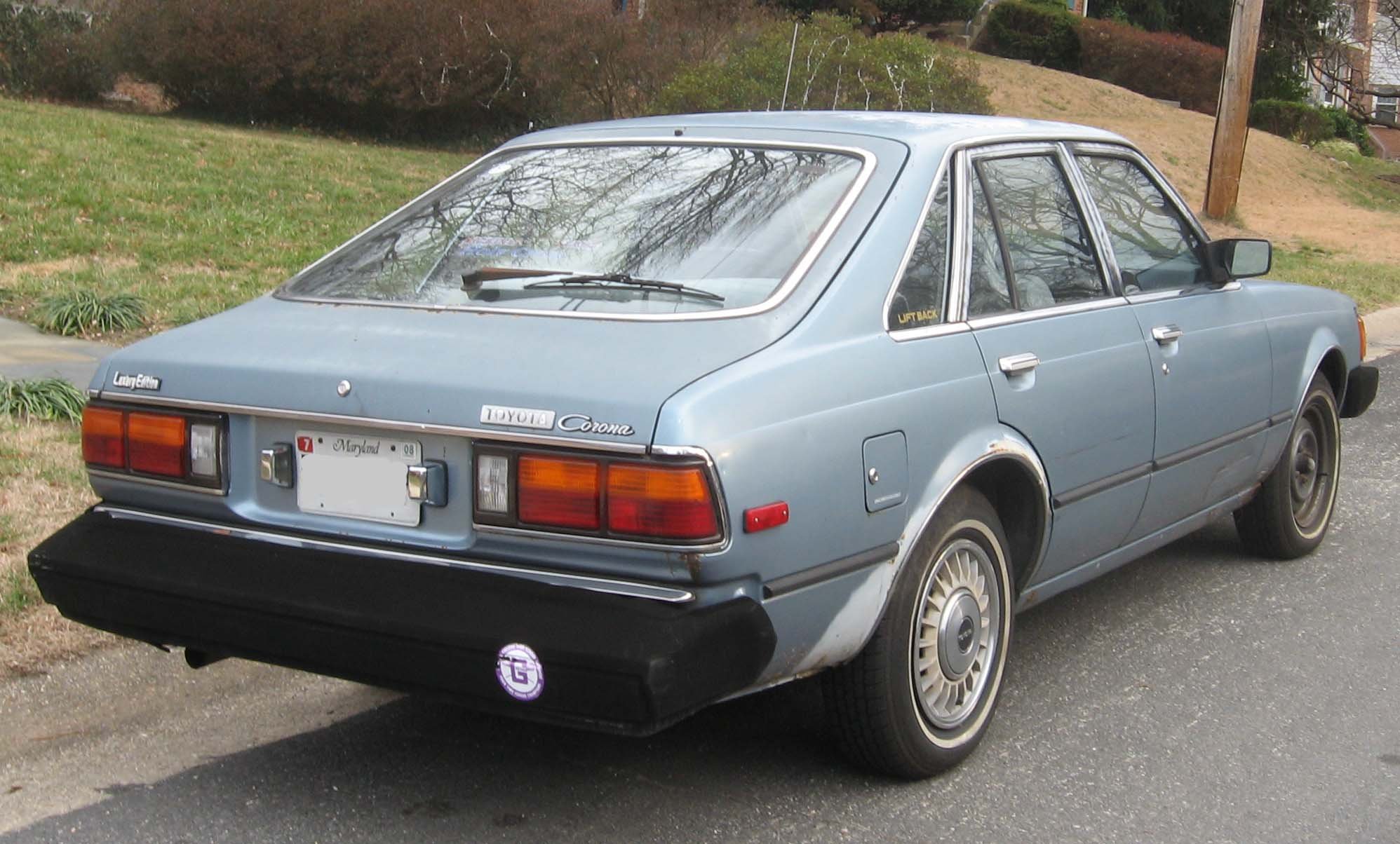 1981-1982 Toyota Corona Luxury Edition photographed in Kensington, Maryland, USA.